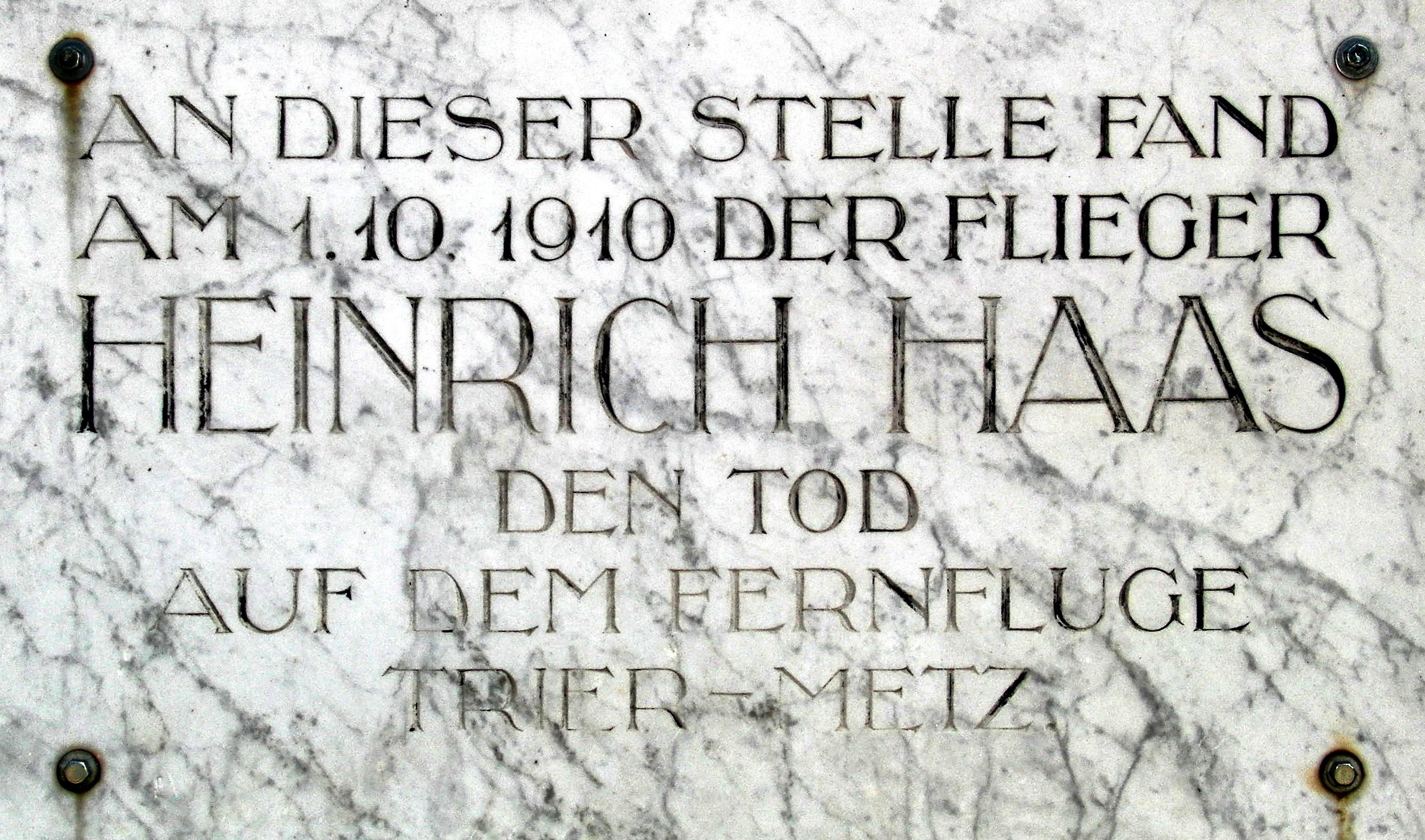 Memorial plaque Heinrich Haas in Wellen